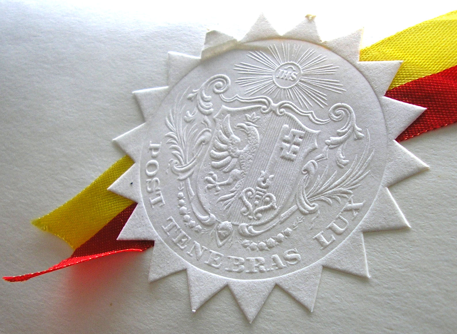 Seal affixed at the bottom of a certificate of maturity (end of secondary studies), Geneva, 1974. Text: Post tenebras lux, motto of Geneva. Diameter of embossing 3.6 cm; diameter of the seal 4.7 cm.